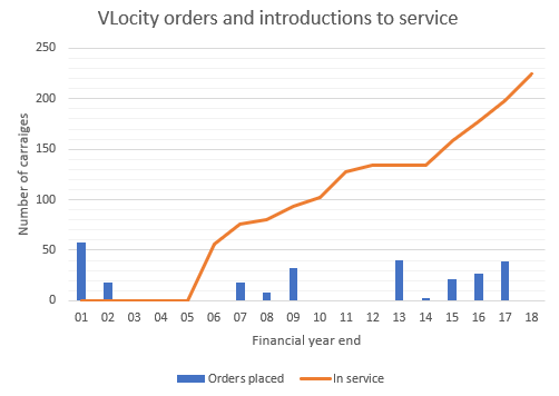 Chart showing the number of VLocity carriages ordered and in service at the end of each financial year from 2001 to 2018. Sourced from V/Line annual reports and government press releases. Chart created in Microsoft Excel.